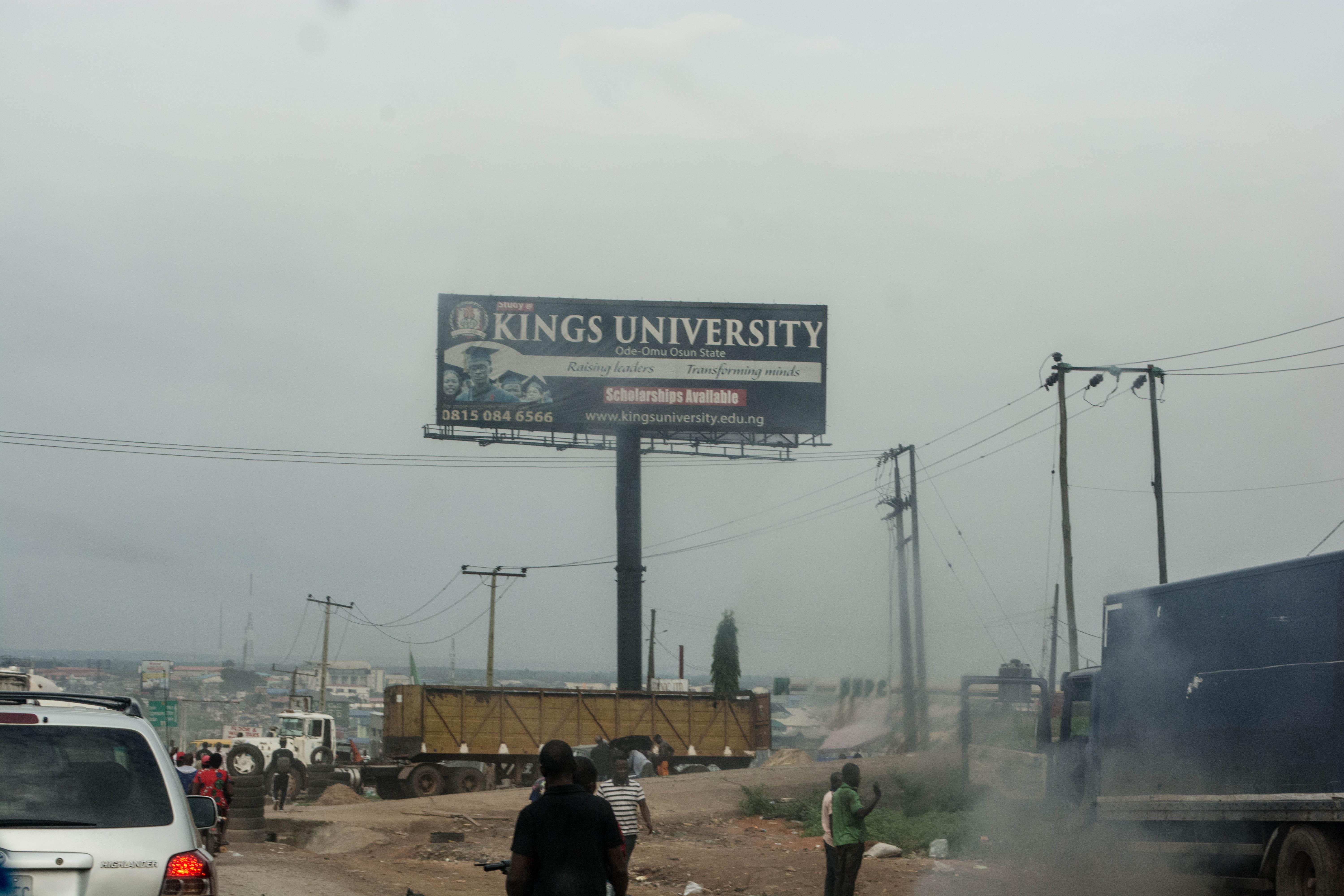 After Berger, Lagos Ibadan express way